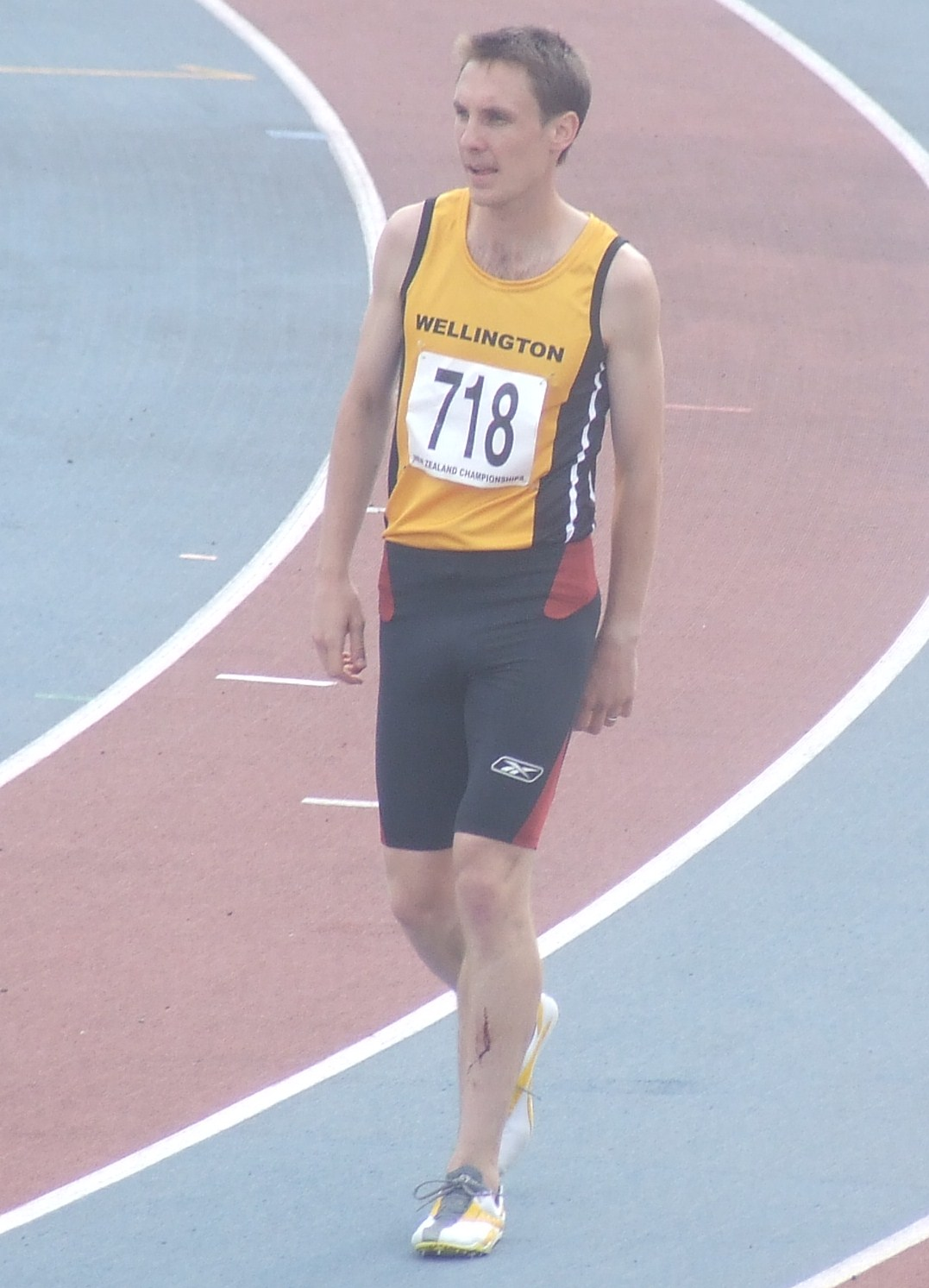 Nick Willis at the New Zealand Championships 2008